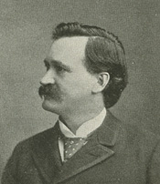 former congressman George Washington Smith of Illinois. Photo from "An Illustrated Congressional Manual. The United States Red Book, 1896, (detail), Collection of U.S. House of Representatives"